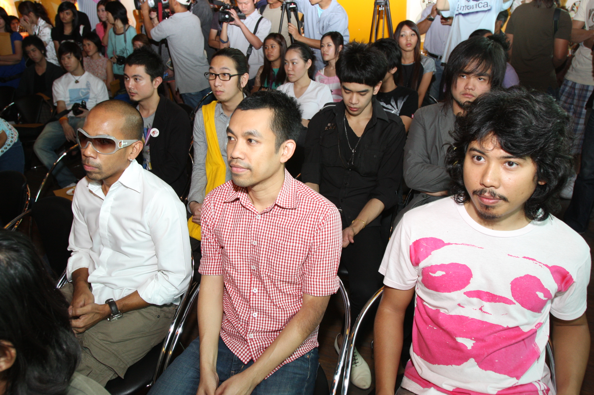 Moderndog (rock band from Thailand)